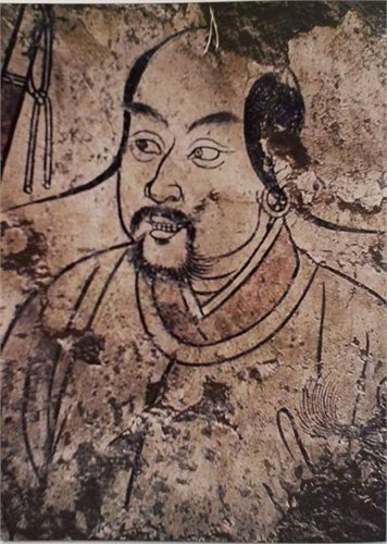 Horse leading, part of the mural from Tomb in Aohan, Liao Dynasty